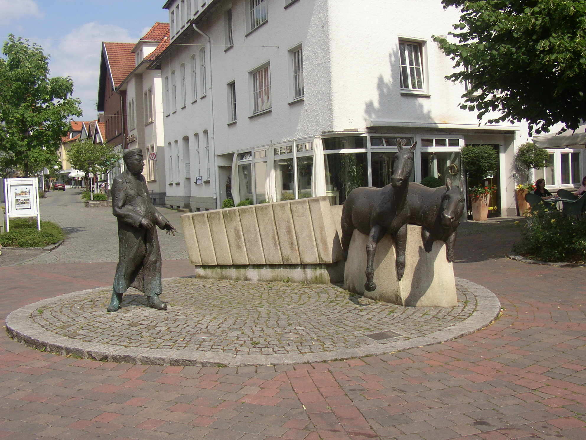 "Haller Willem" memorial in Halle (Westfalen), Gütersloh County, Germany